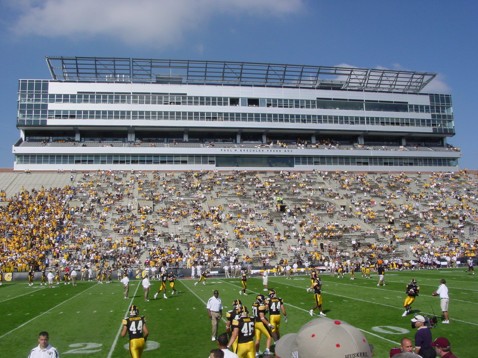 Kinnick Stadium's Paul W. Brechler Press Box before Iowa's September 1st game against Montana.